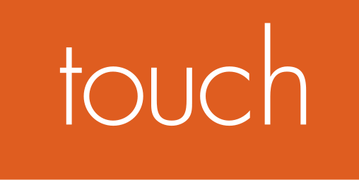 Logo from FOX drama, Touch